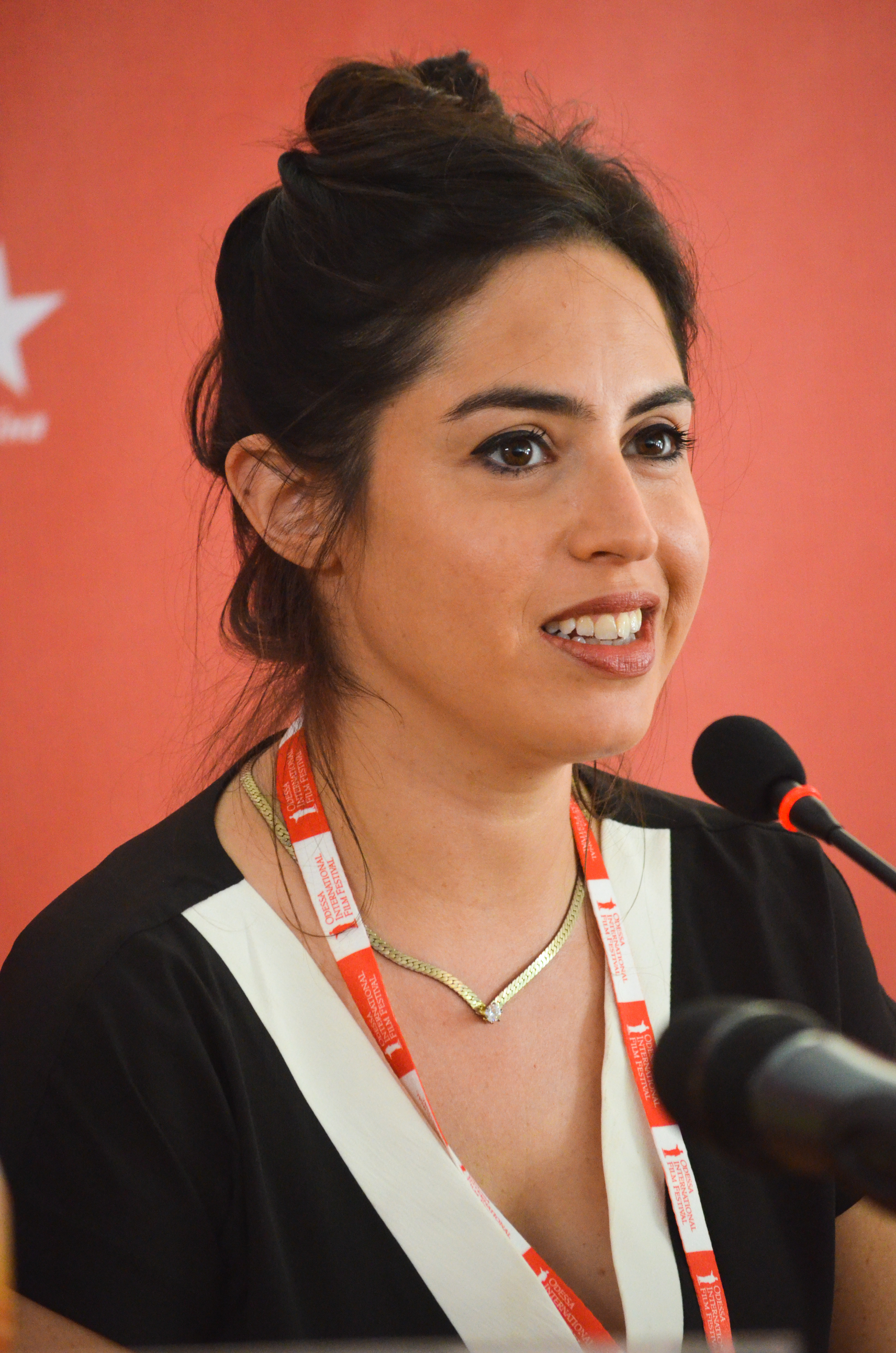 Talya Lavie, Israeli film director and writer, at the 5th Odessa International Film Festival.